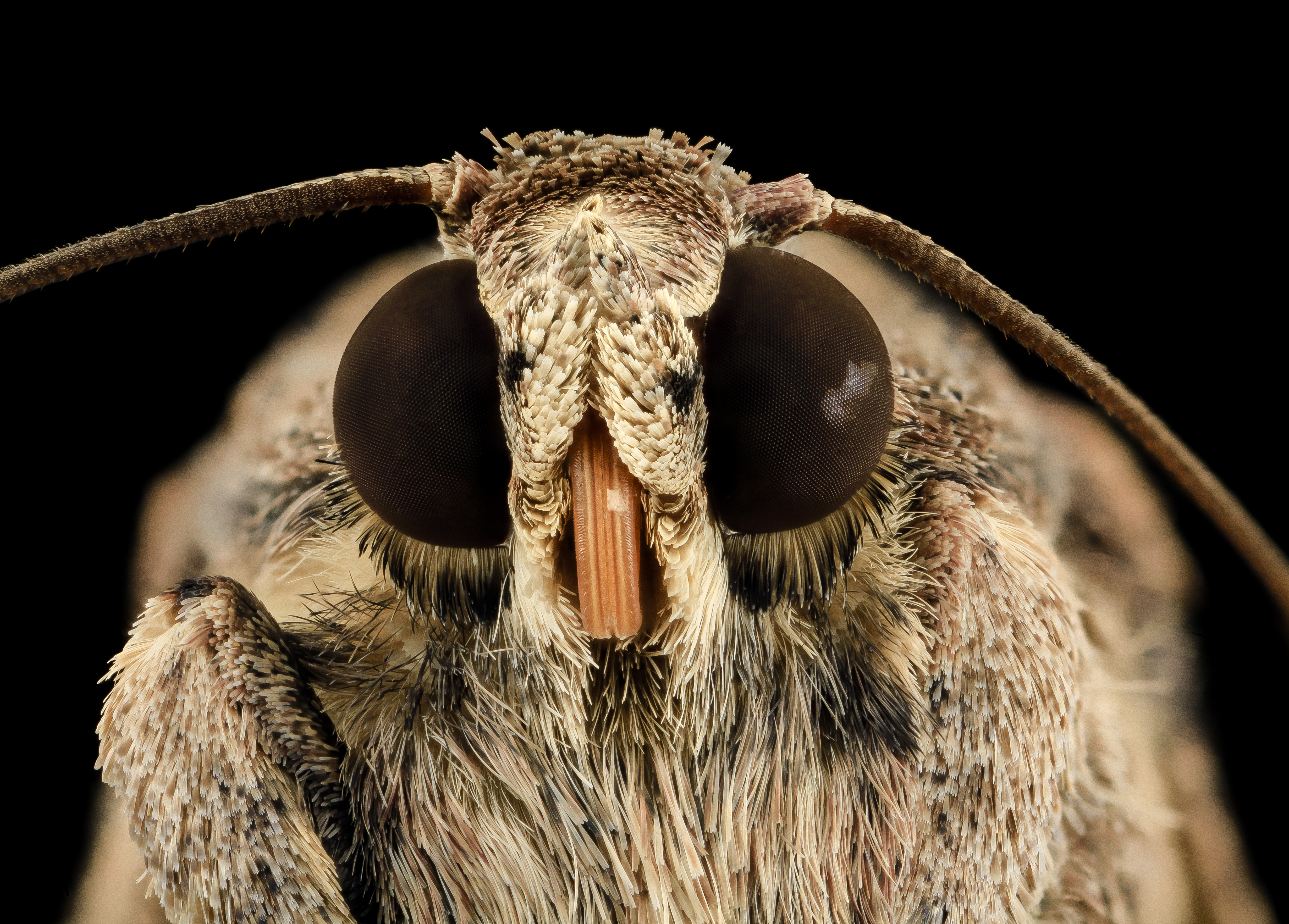 Spodoptera frugiperda - Fall Armyworm, another defoliating moth species, slightly different from the previous series on the Southern Armyworm.